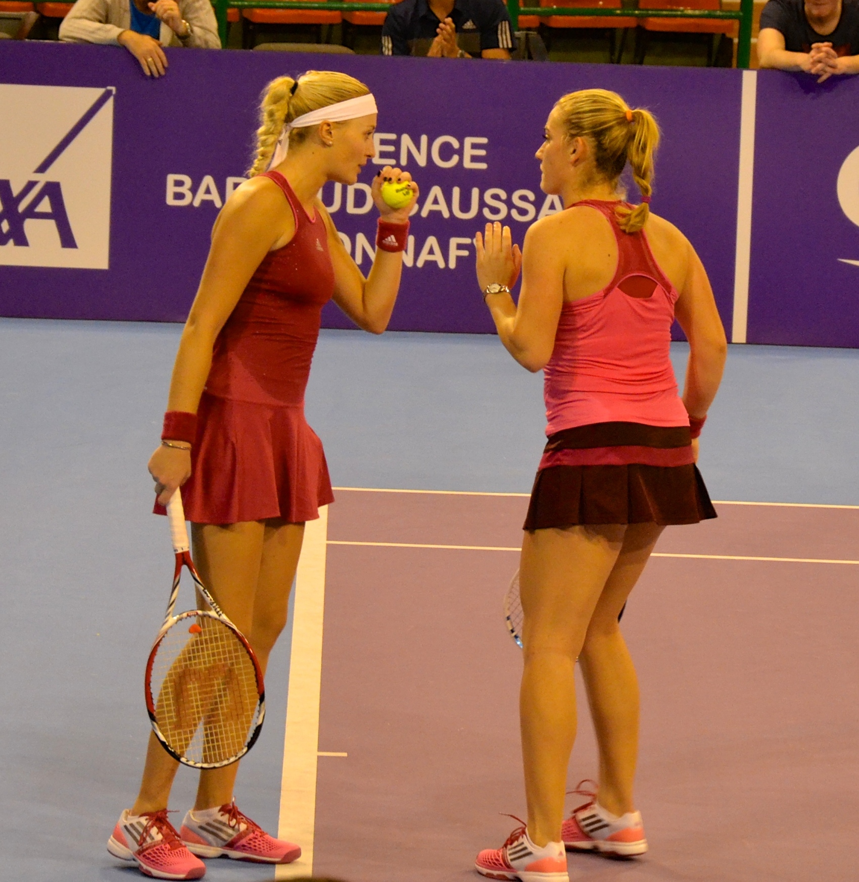 Kristina Mladenovic (left) and Timea Babos in the doubles final of the 2014 Open GDF Suez de Limoges.